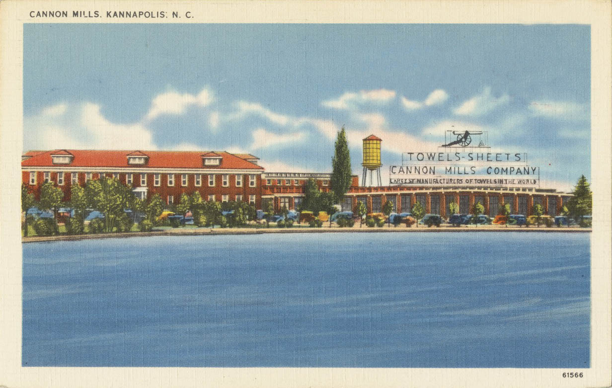 View of the Cannon Mills main plant. Pub. by Dixie News Company, Charlotte, N.C. "Tichnor Quality Views," Reg. U. S. Pat. Off. Made Only by Tichnor Bros., Inc., Boston, Mass.